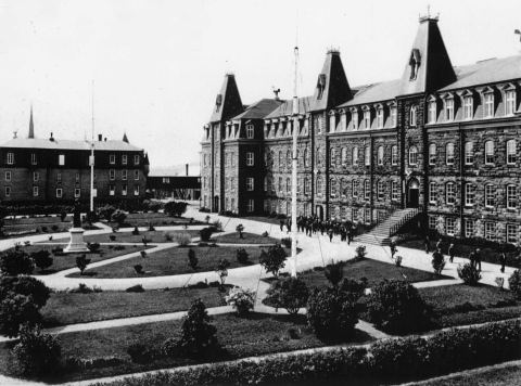 The Saint-Joseph College in Memramcook, New Brunswick before 1933.